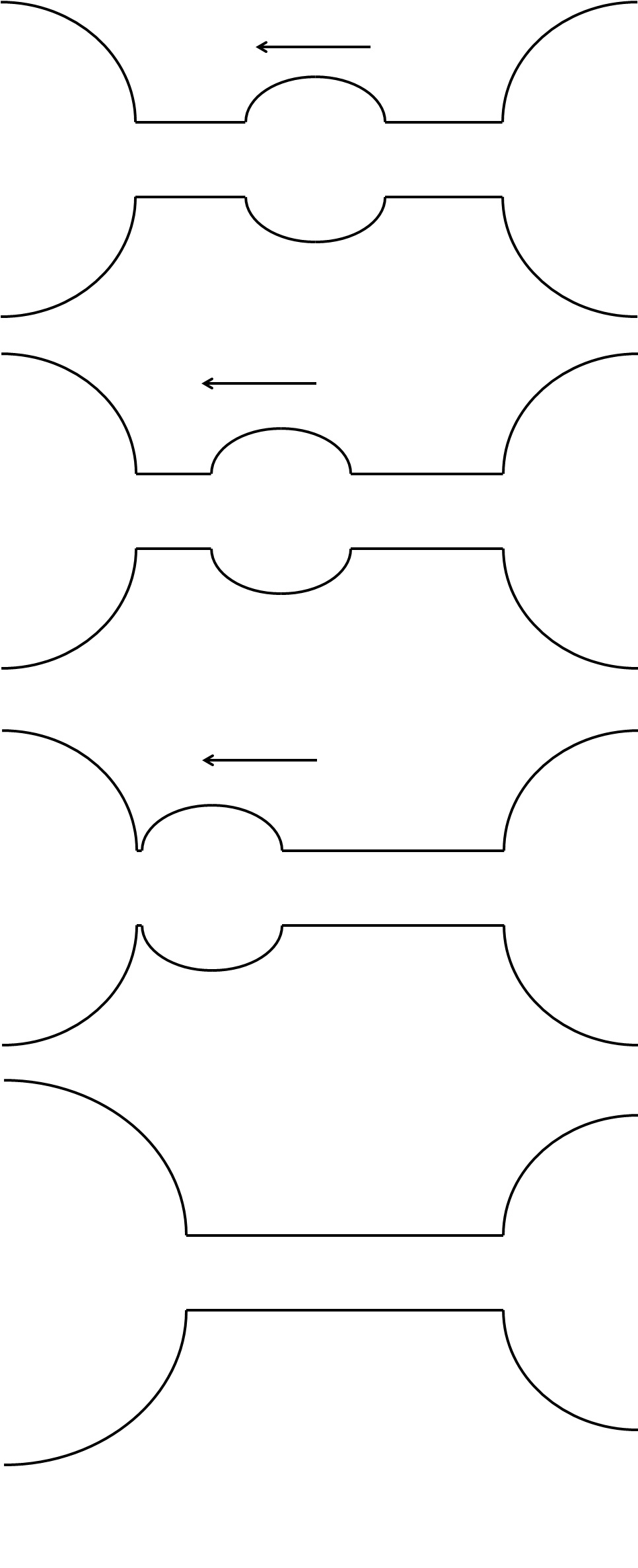 Merging phenomenon in bead string structure